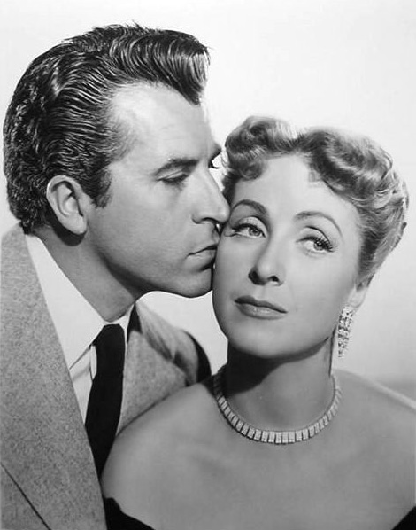 Promotional photo showing Fernando Lamas and Danielle Darrieux for an American film Rich, Young and Pretty